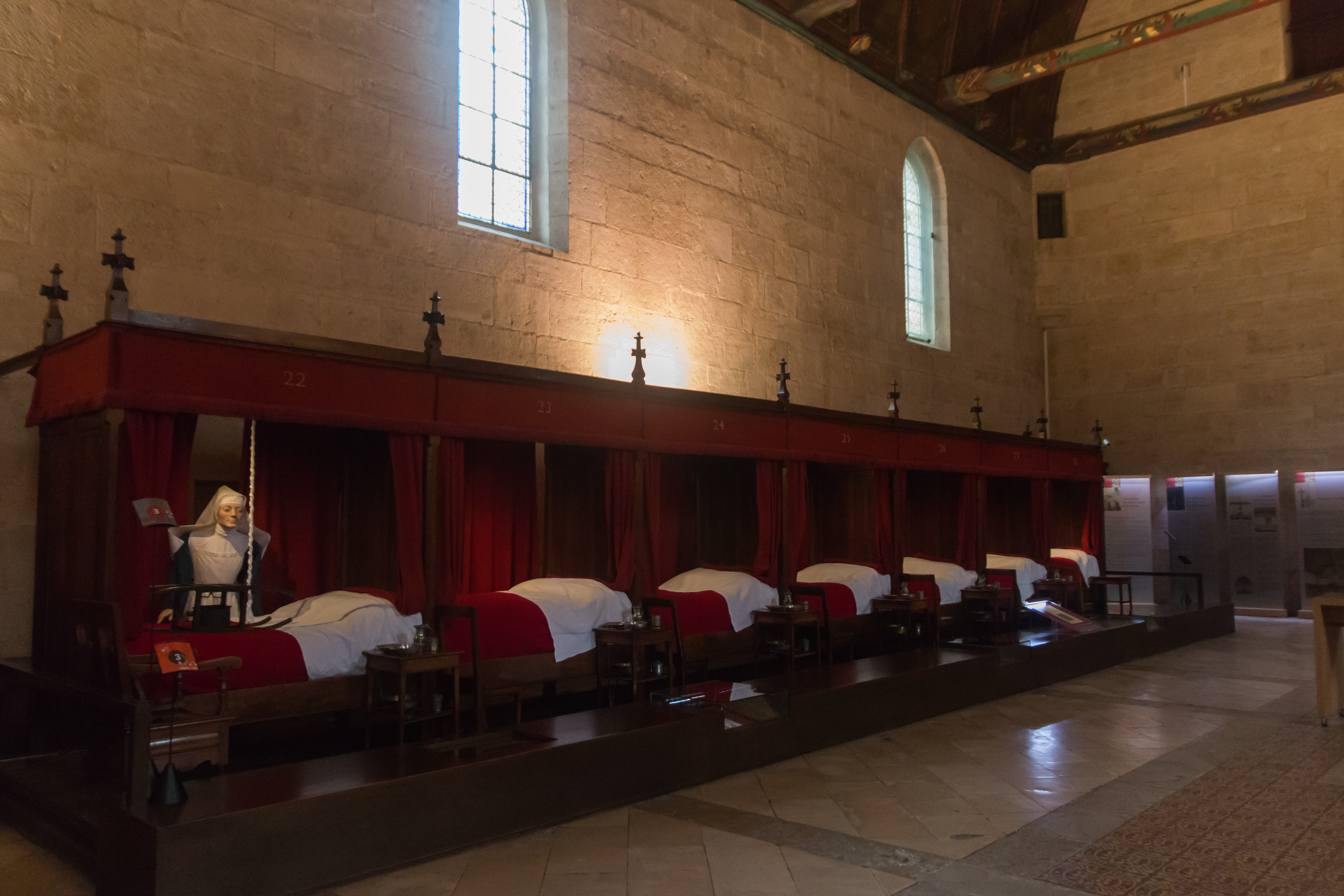 Beds for patients feet of whose are exposed furniture, tableware and care instruments in use at the hospice